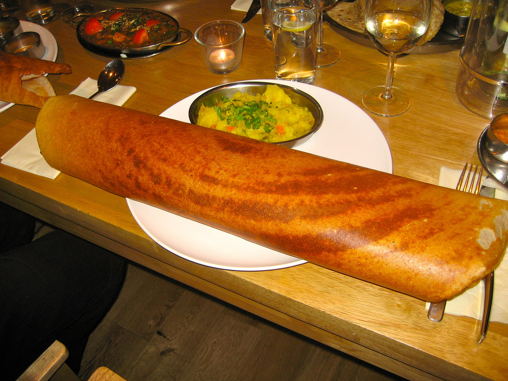 Paper Masala Dosa This was huge, but I ate it all. Very nice it was, too.